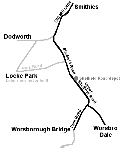 Map of Barnsley & Disctrict Tramway system, Barnsley.